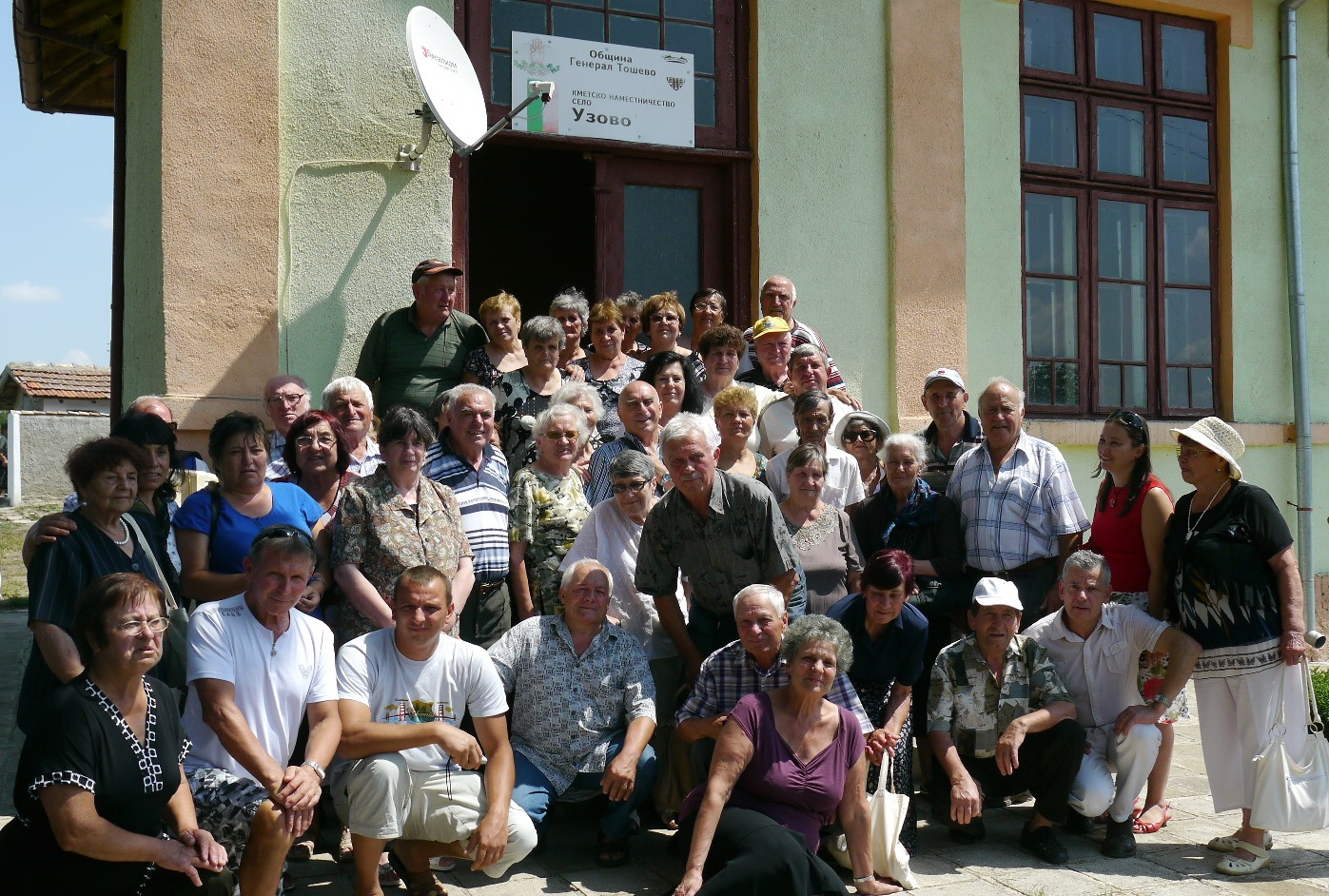 Meeting from the meetup in the Bulgarian village Uzovo